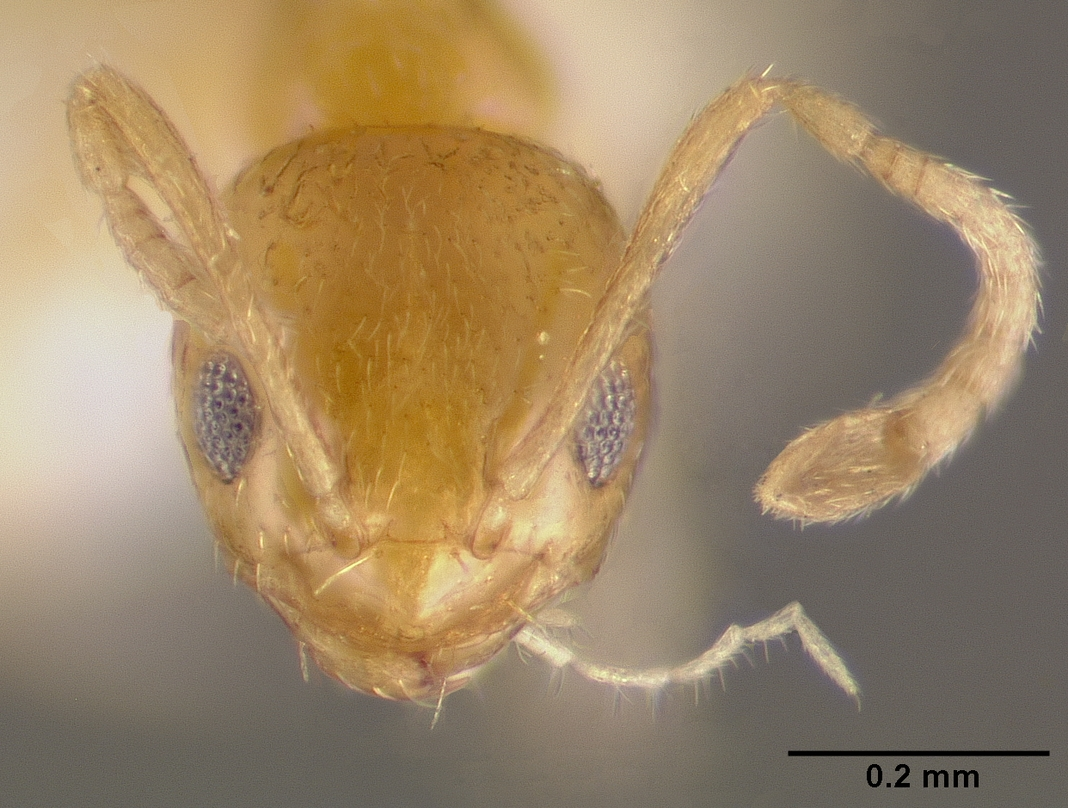 Head view of ant Plagiolepis alluaudi specimen casent0003320.